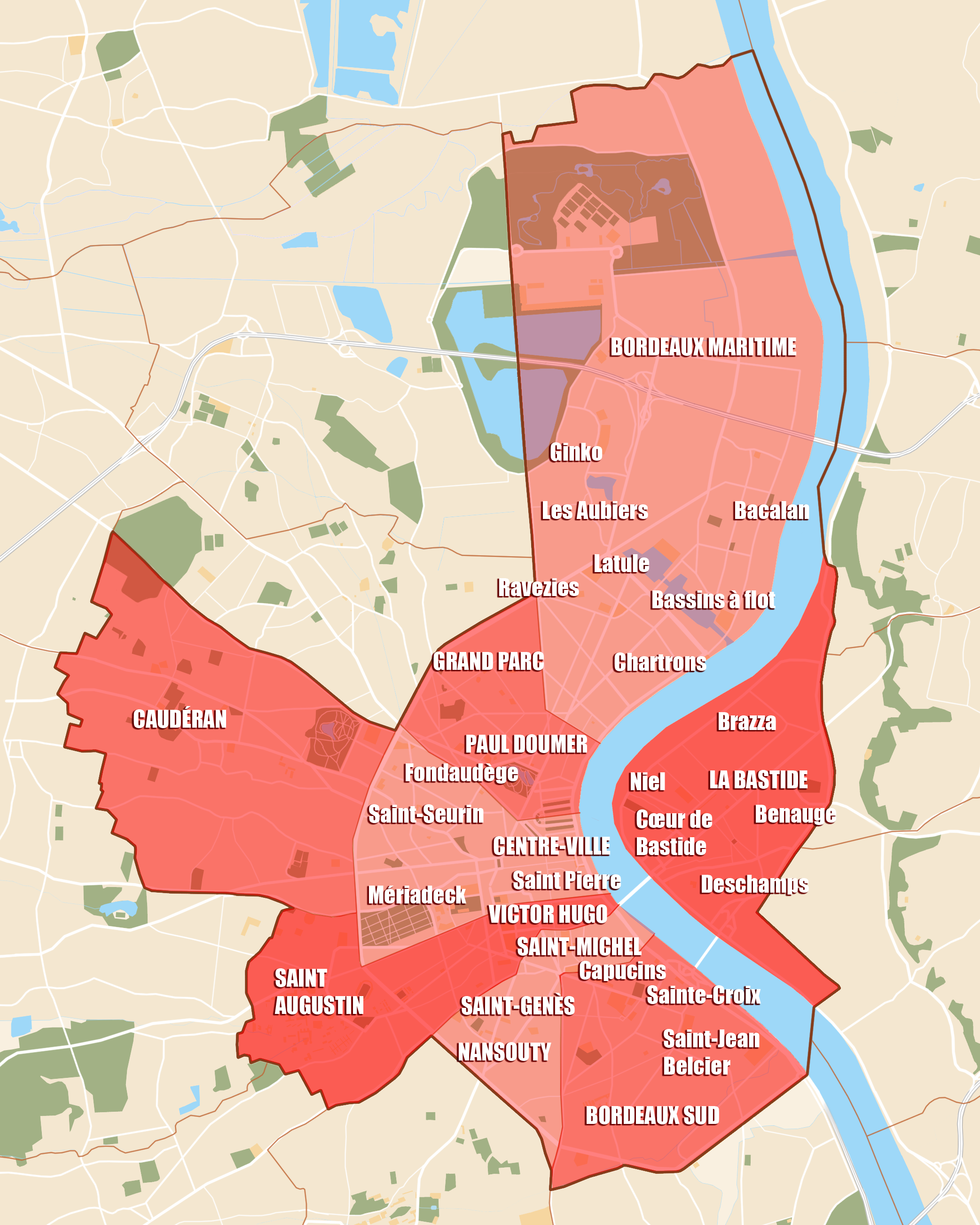 Neighborhoods in Bordeaux.